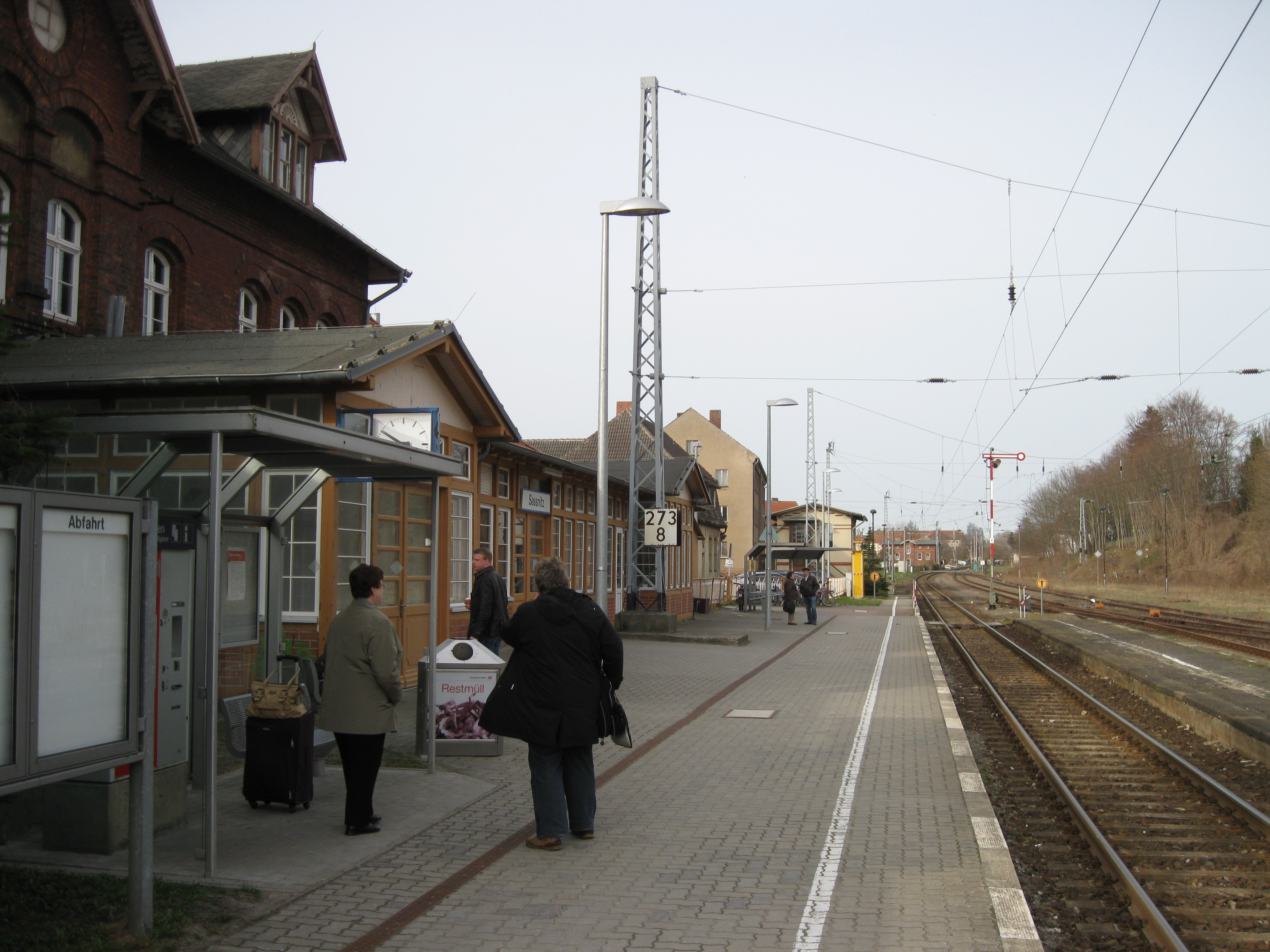 Train station Sassnitz, Rügen, Mecklenburg-Vorpommern, Germany